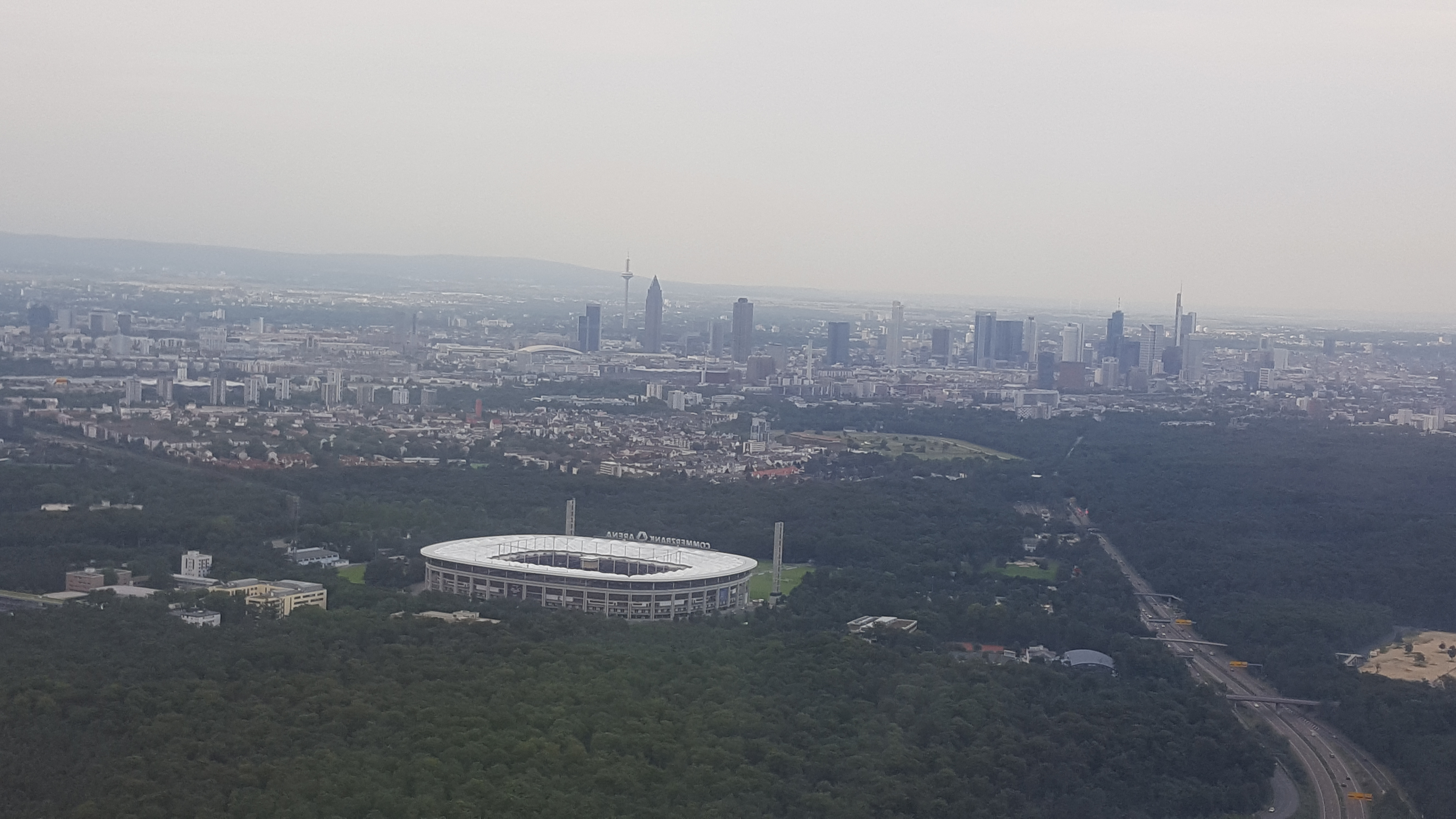 Commerzbank-Arena 20170825